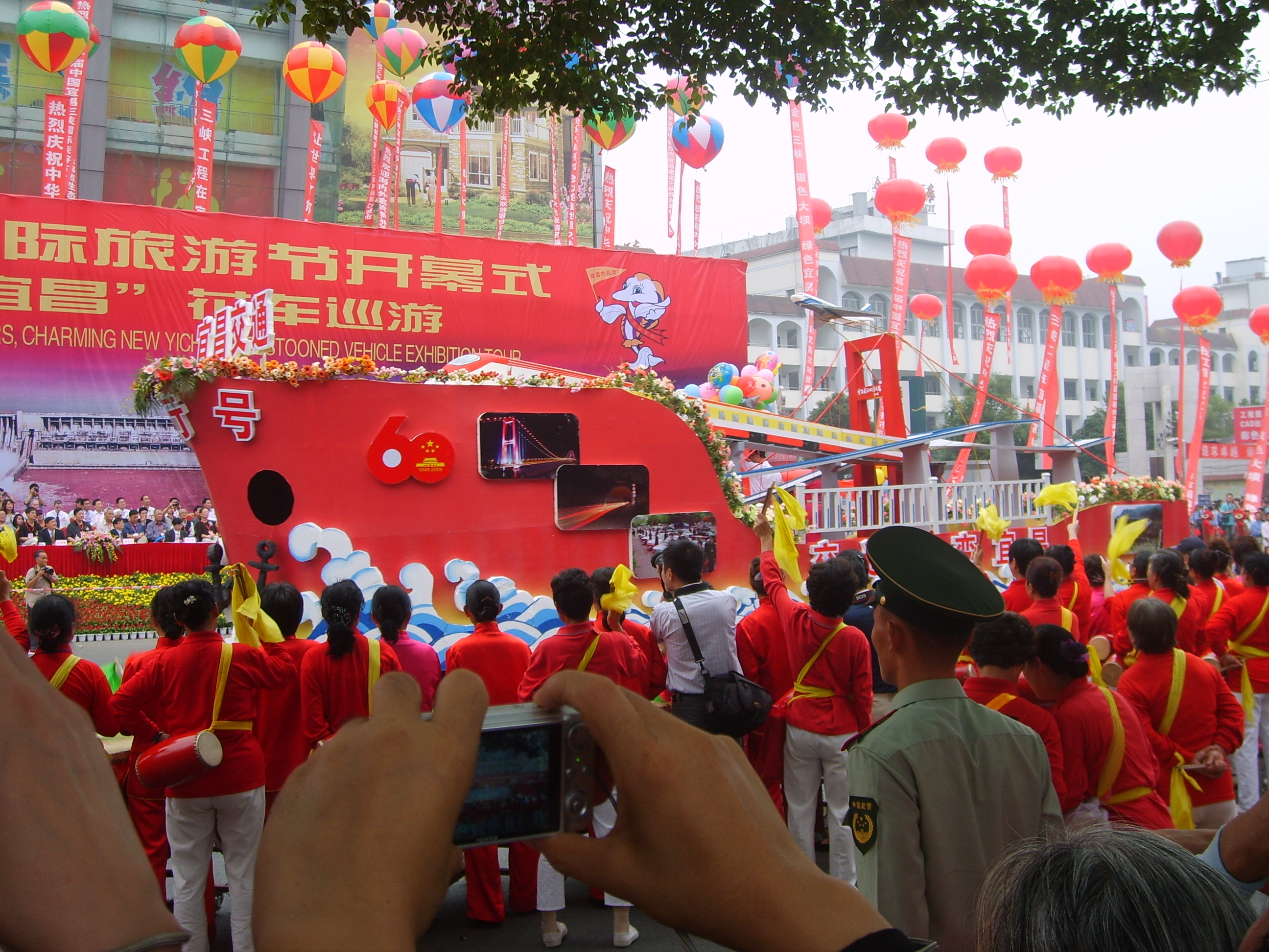 The 10th China yichang three gorges international tourist festival flower floats parade